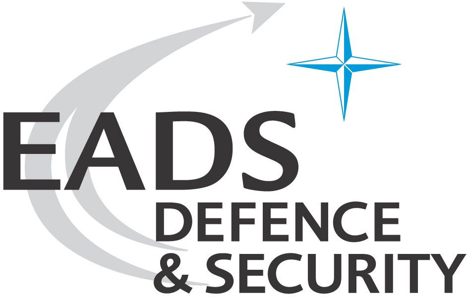 EADS Defence & Security Old Logo